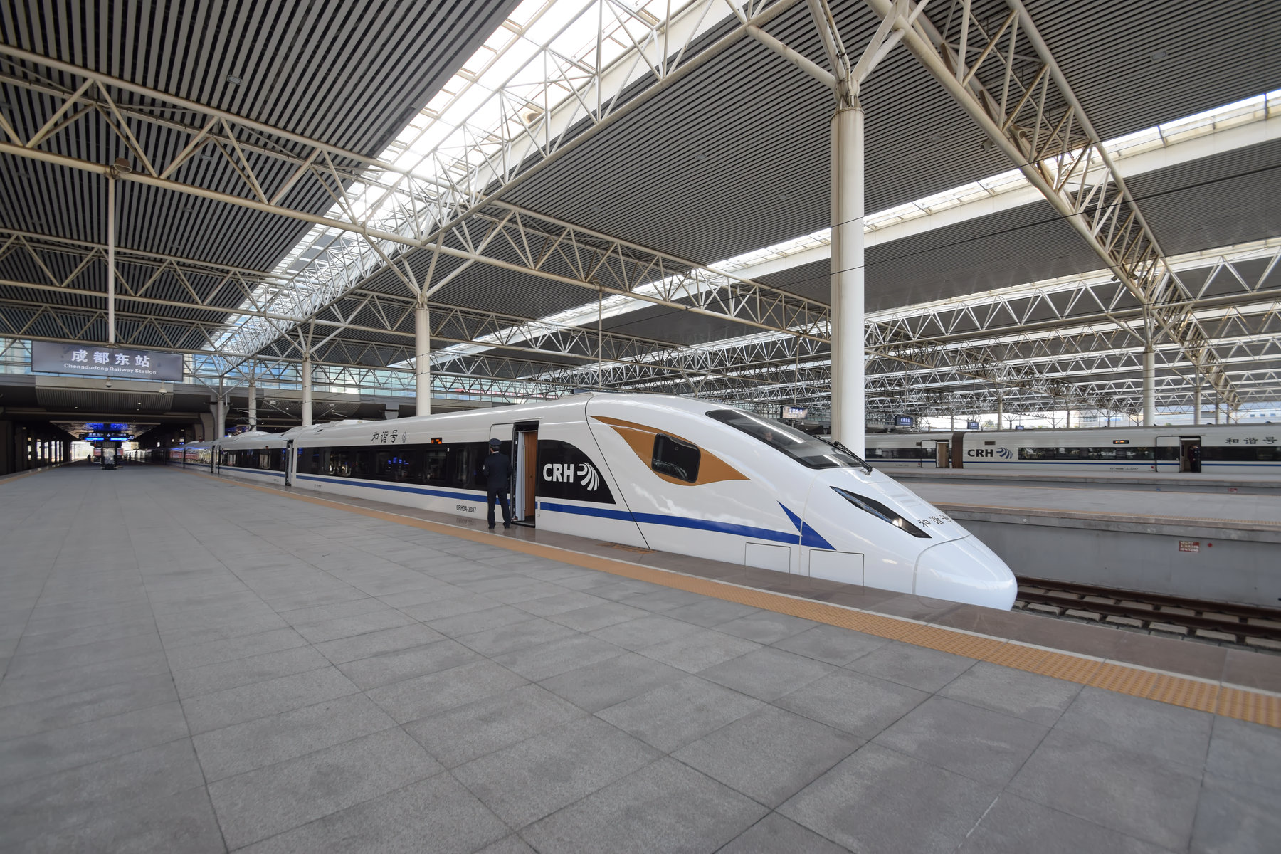 Xi'an-Chengdu High-speed Railway D4262 CRH3A-3087 EMU at Chengdu Dong (East) Railway Station